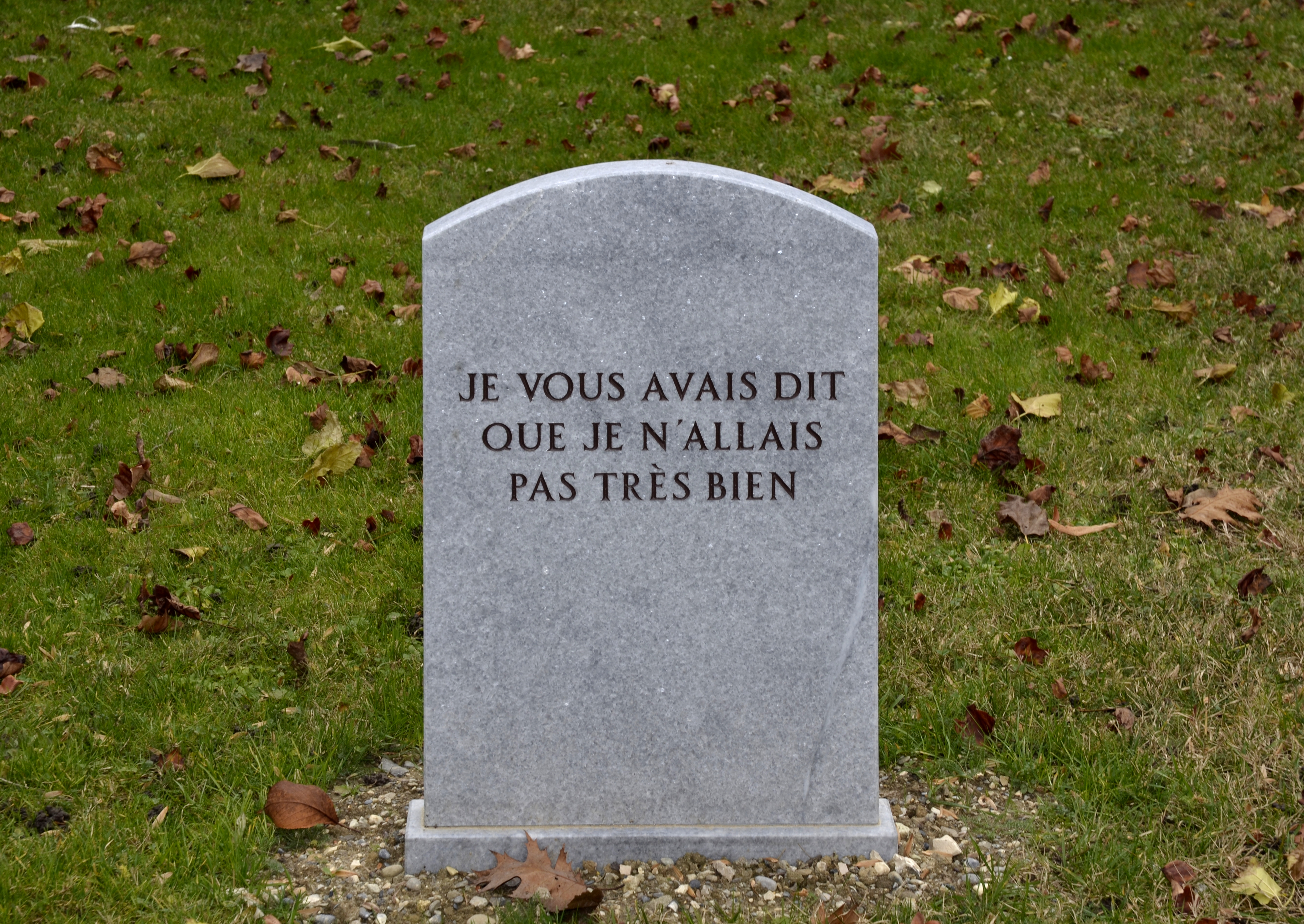 Je vous avais dit que je n'allais pas très bien (I told you I was not going very well), work by Gianni Motti. Kings Cemetery, Geneva.